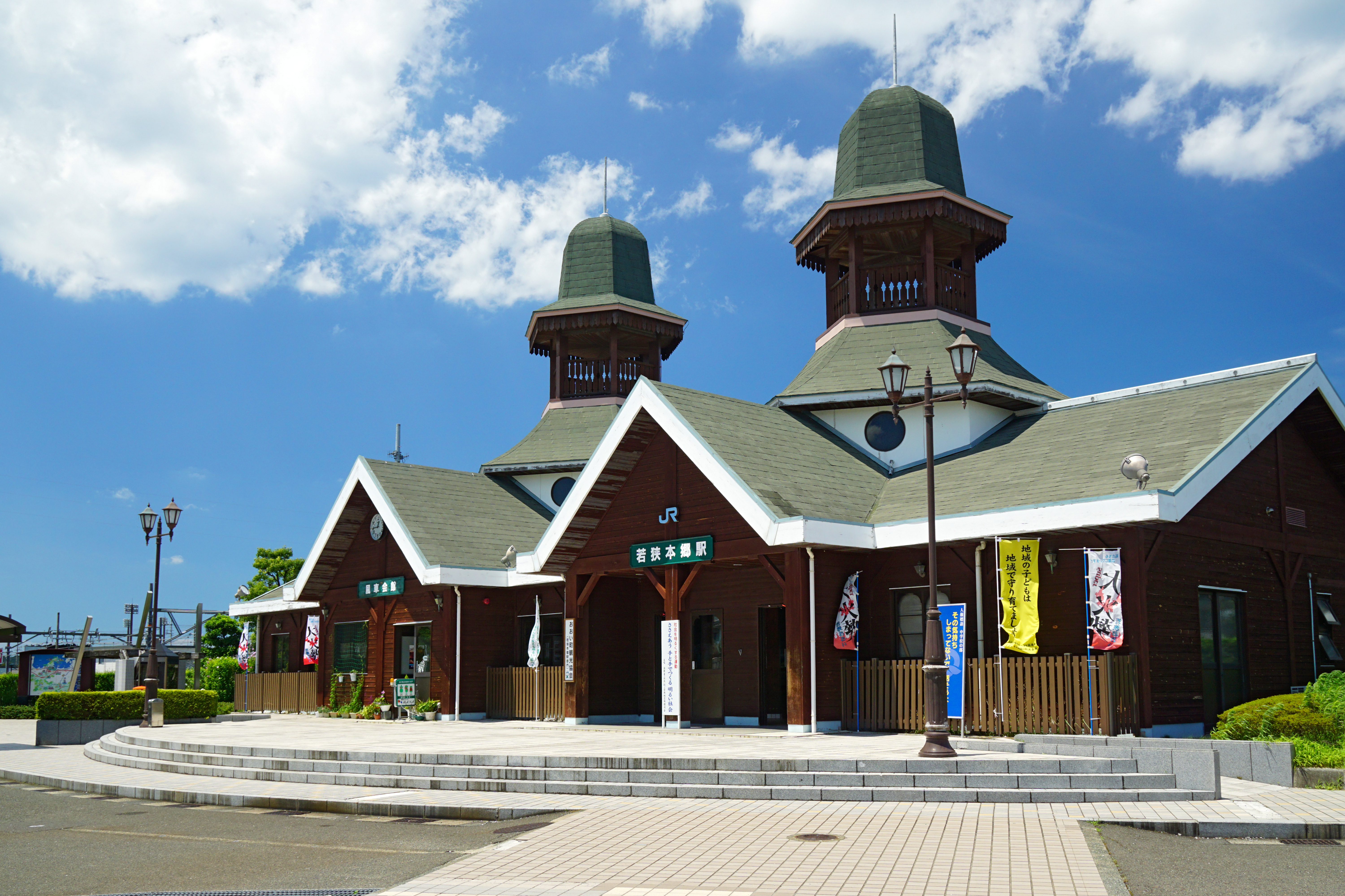 Wakasa-Hongō Station in Ōi, Fukui prefecture, Japan.